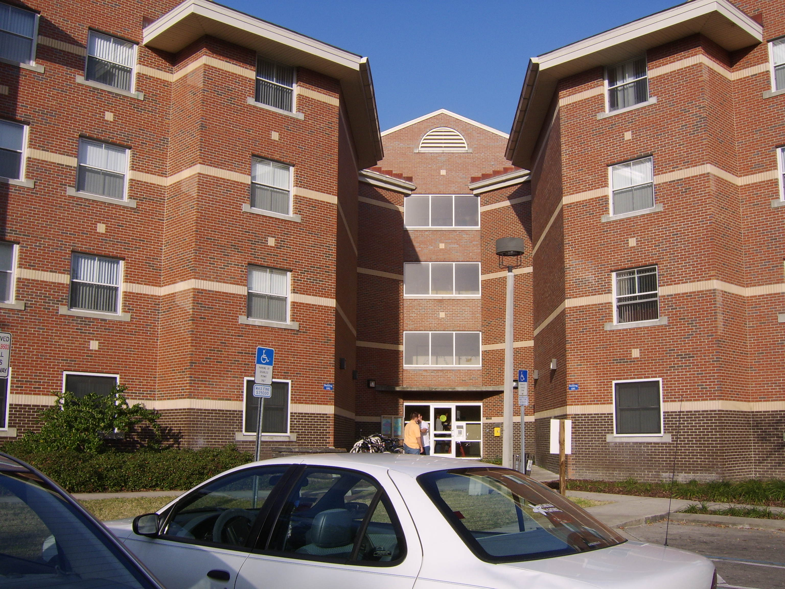 Springs Residential Complex, originally Hall 95/1995 Residential Facility, at the University of Florida